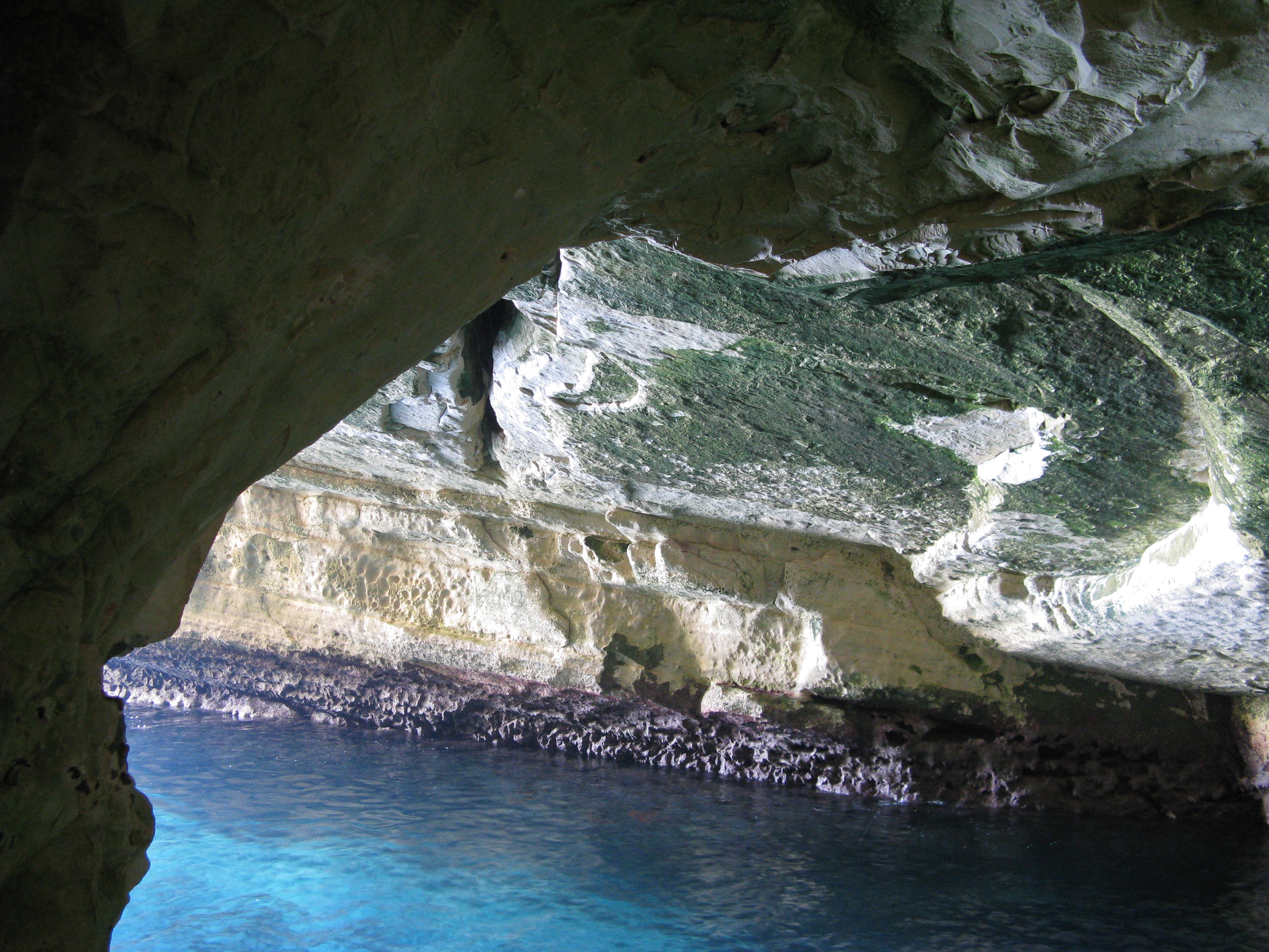 Inside the Rosh Hanikra cave